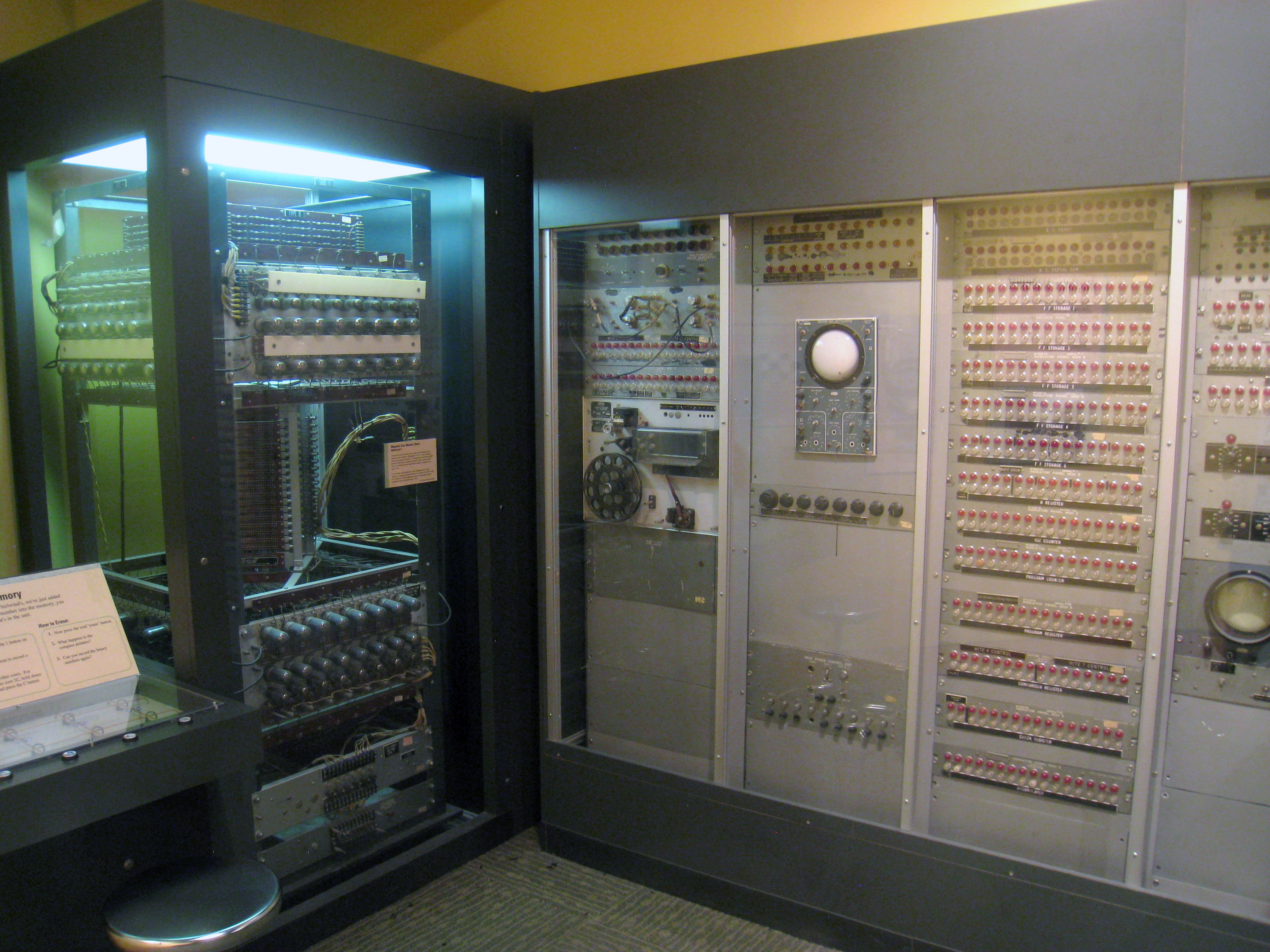 Whirlwind computer, sections of core memory and controls, in Museum of Science, Boston, Massachusetts, USA.